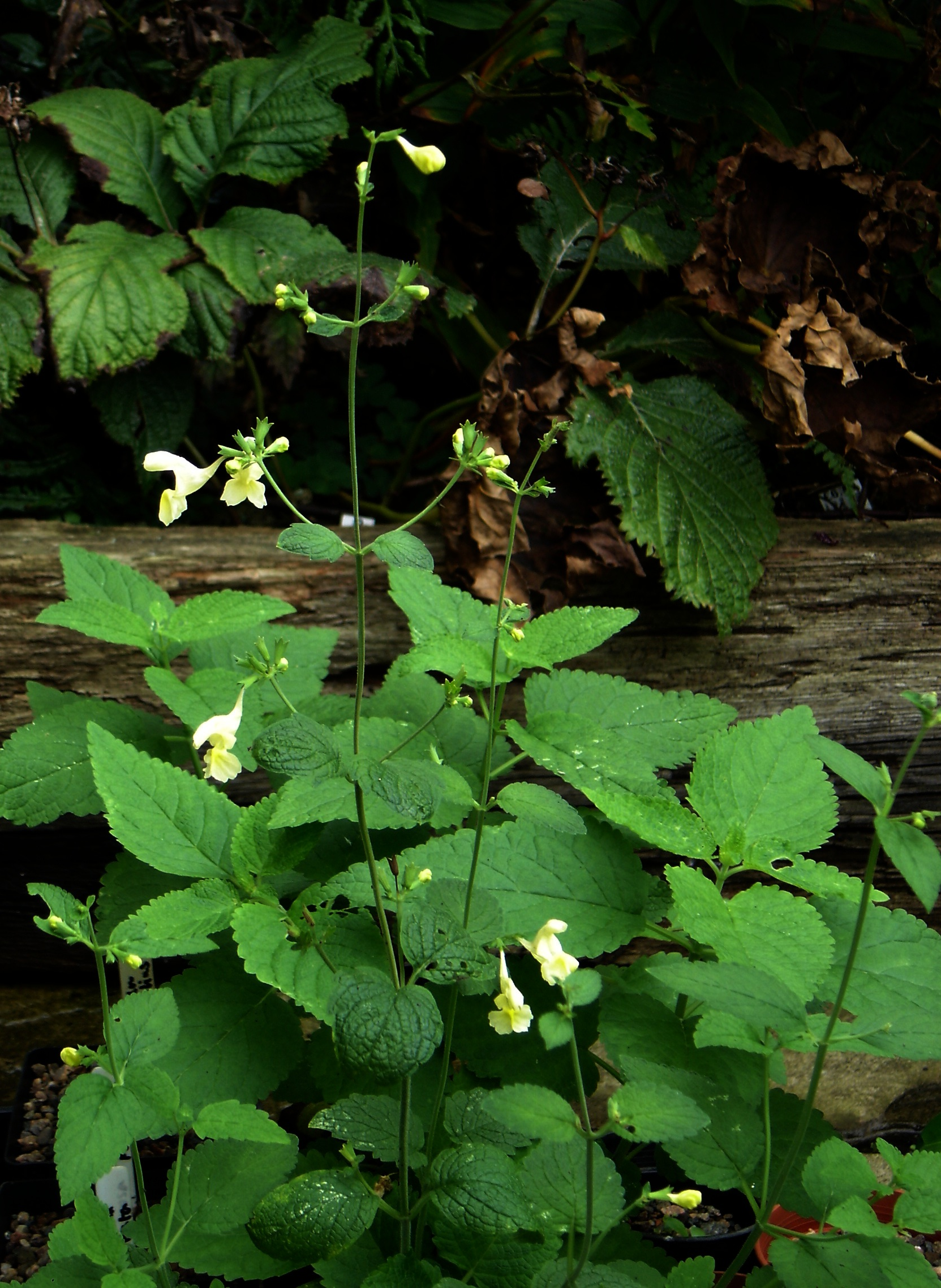 Small plants in pots on the nursery. Govaniana is actually a tall plant (to 6ft) and unlike other Nepetas, prefers moisture and not too much heat. A nice airy perennial and aromatic - reminiscent of lemon balm.